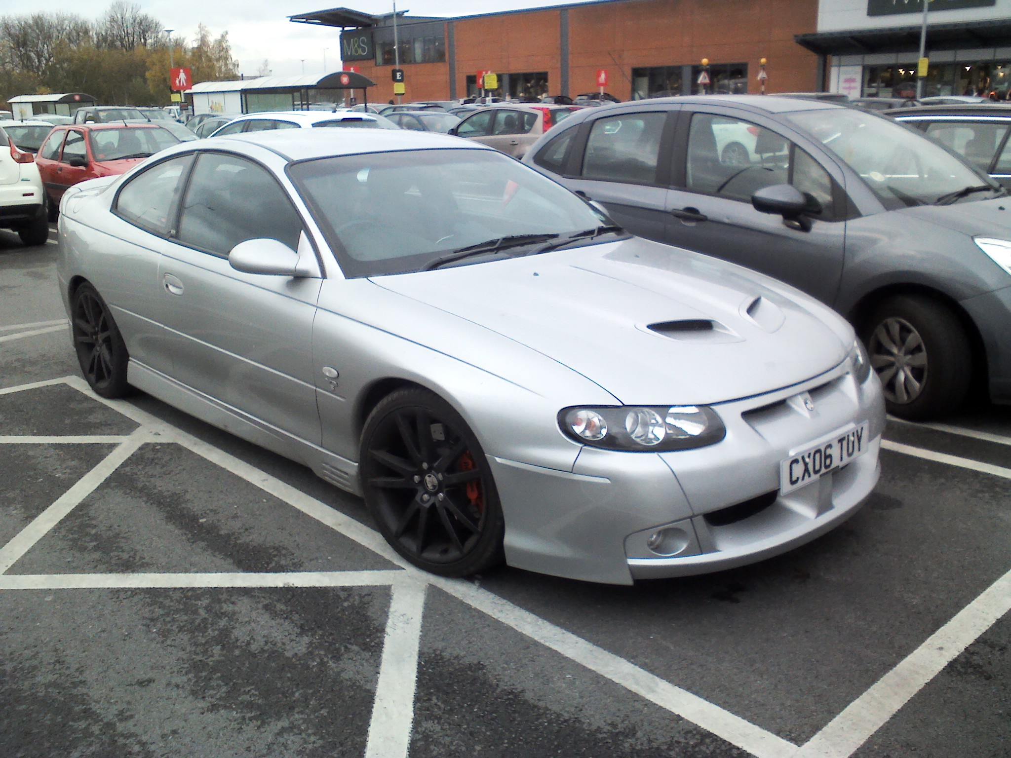 On my long list of dream cars